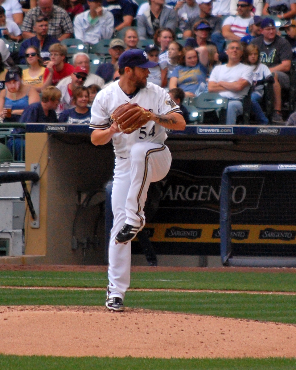 Michael Blazek pitching for the Milwaukee Brewers against the Cincinnati Reds at Miller Park in Milwaukee, Wisconsin in 2013.